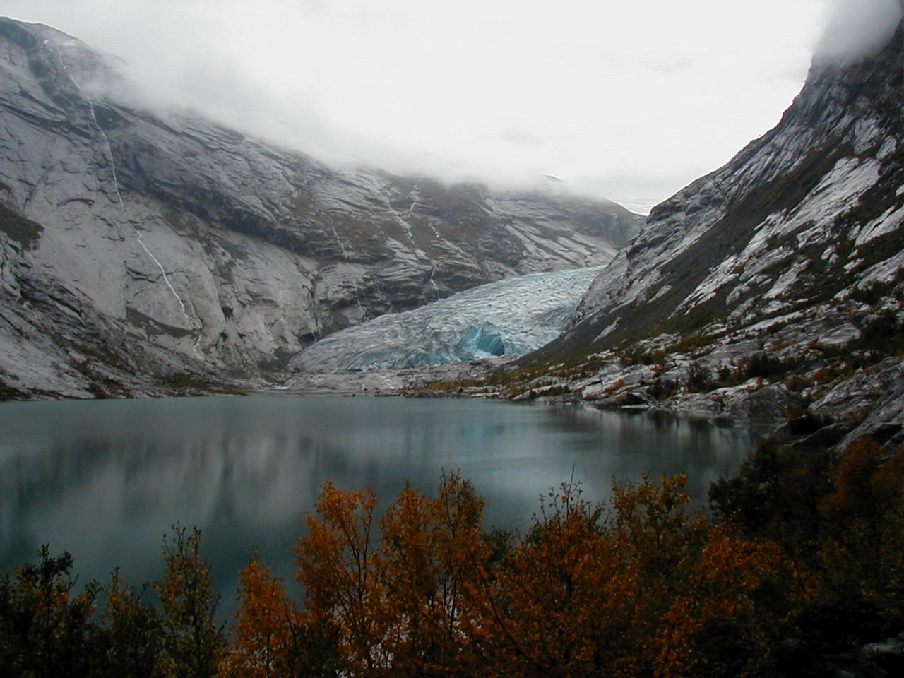 Nigardsbreen, a glacier in Luster, Norway.